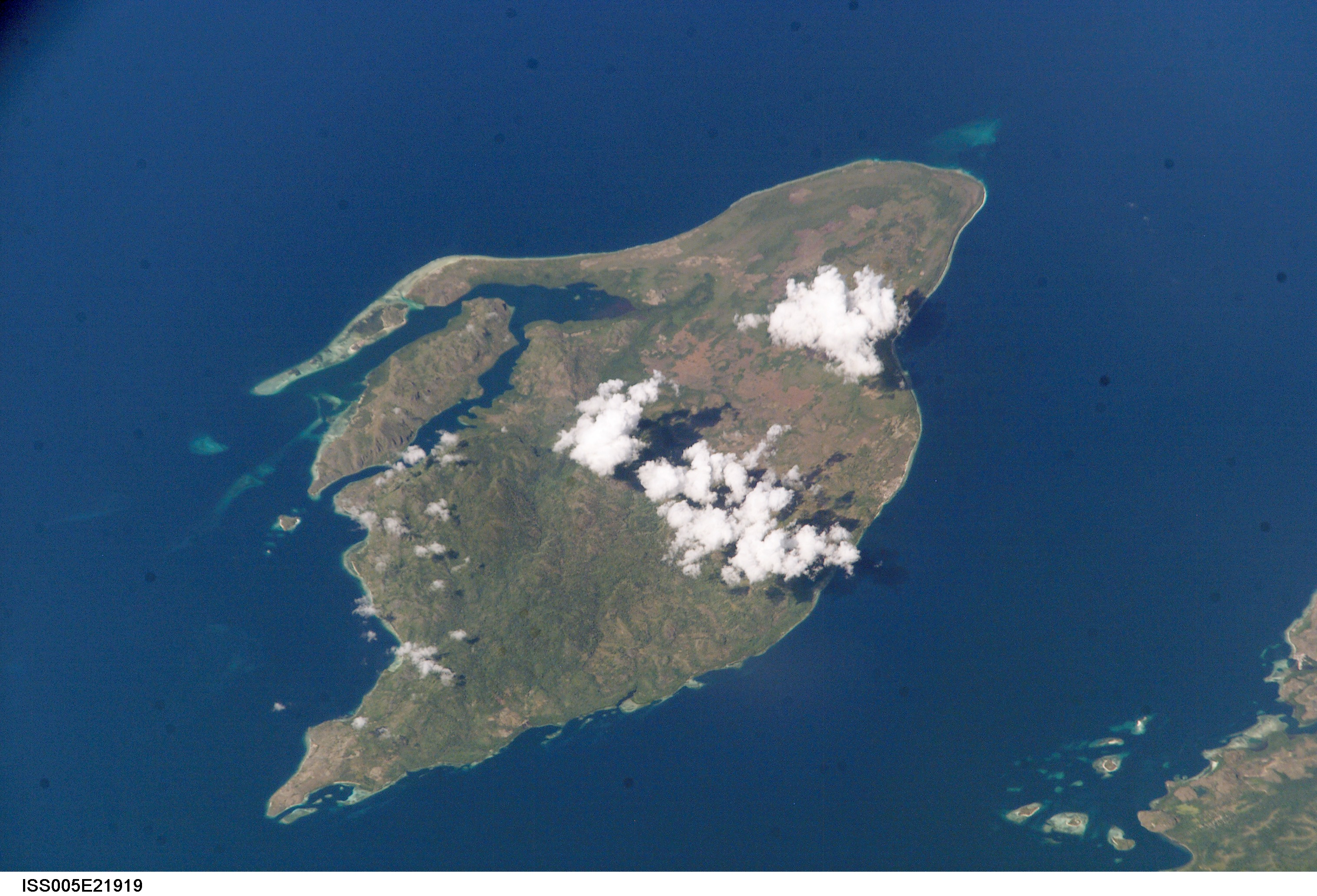 ISS Picture from Pulau Boano (Boano Island) , ISS005-E-21919, taken 2002.12.01